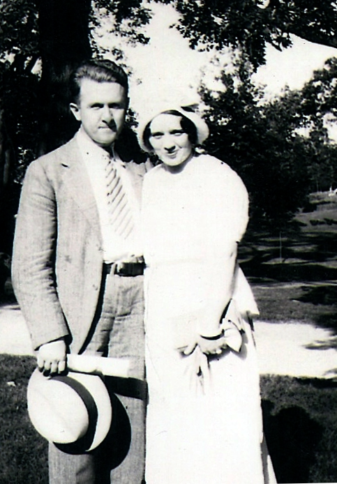 A photo from congressman John W. Murphy's wedding.